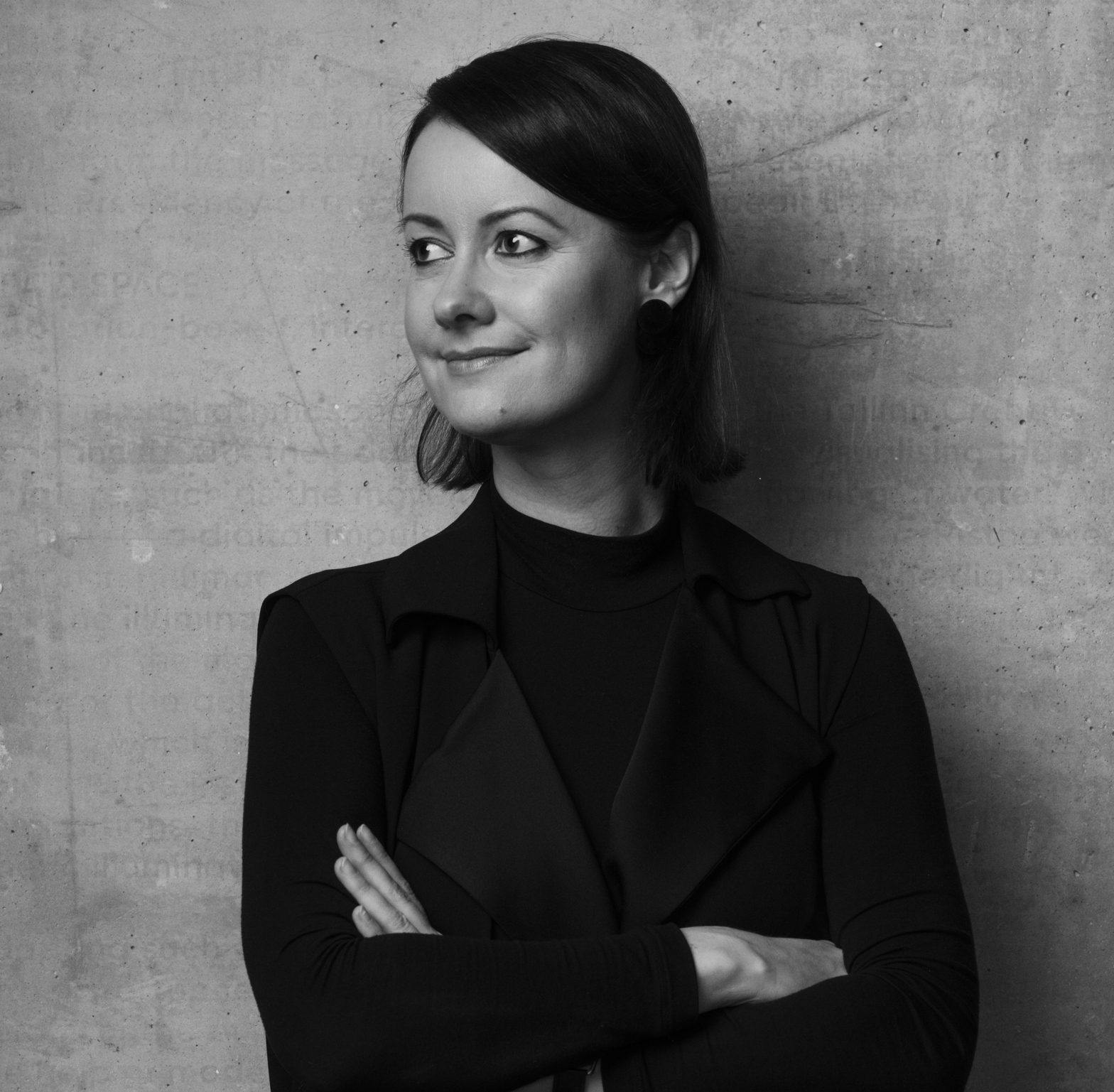 Estonian music manager Helen Sildna, 2018. Photo by Kertin Vasser.